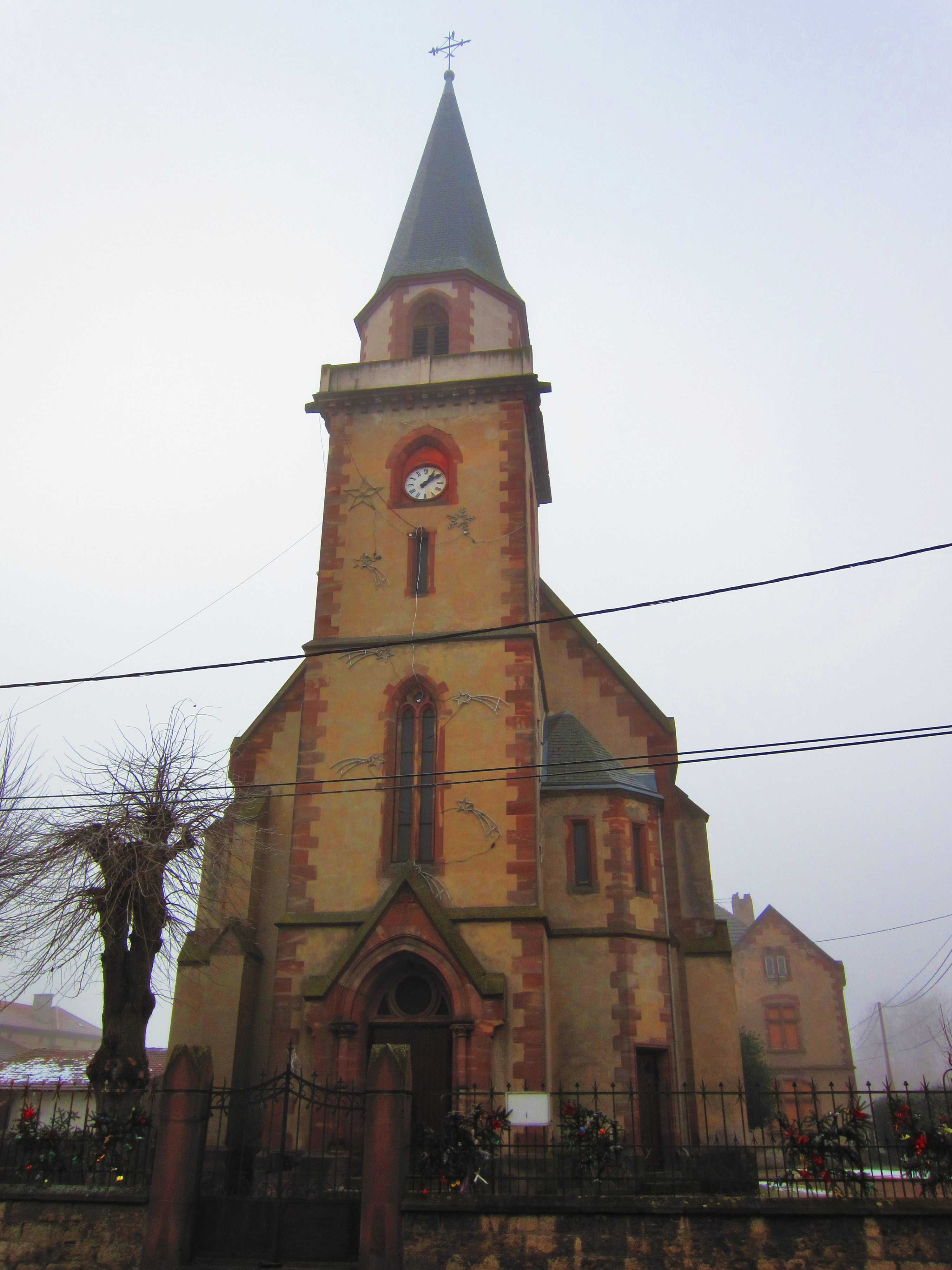 Temple Dieuze